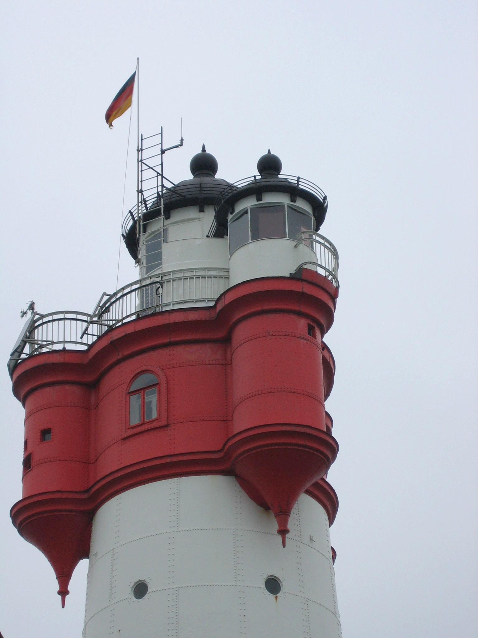 This is a self-taken picture of the lightfire Roter Sand near the german coast, near Bremerhaven. Photograph by Tim Rausch.